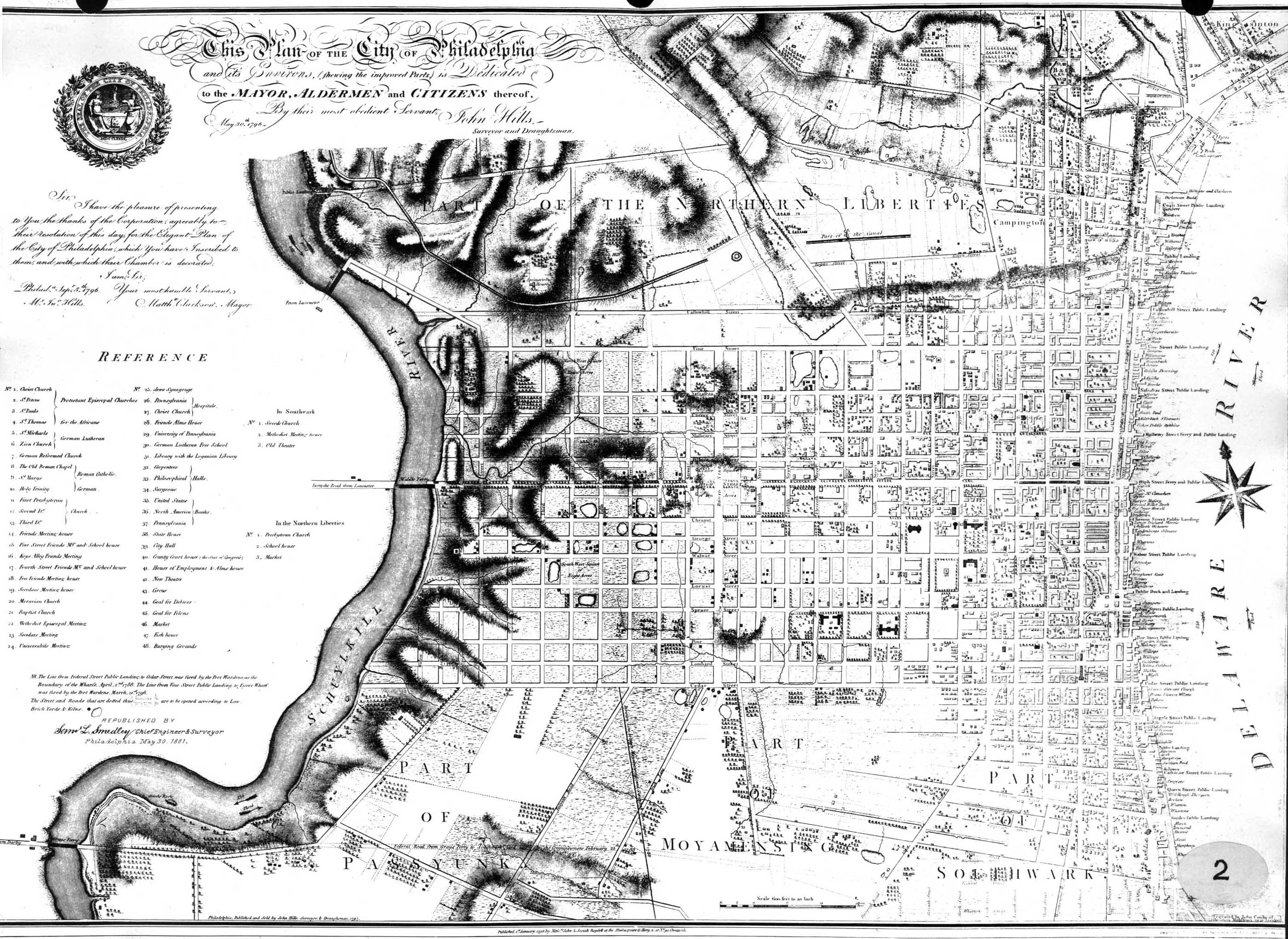 "Plan of the City of Philadelphia"